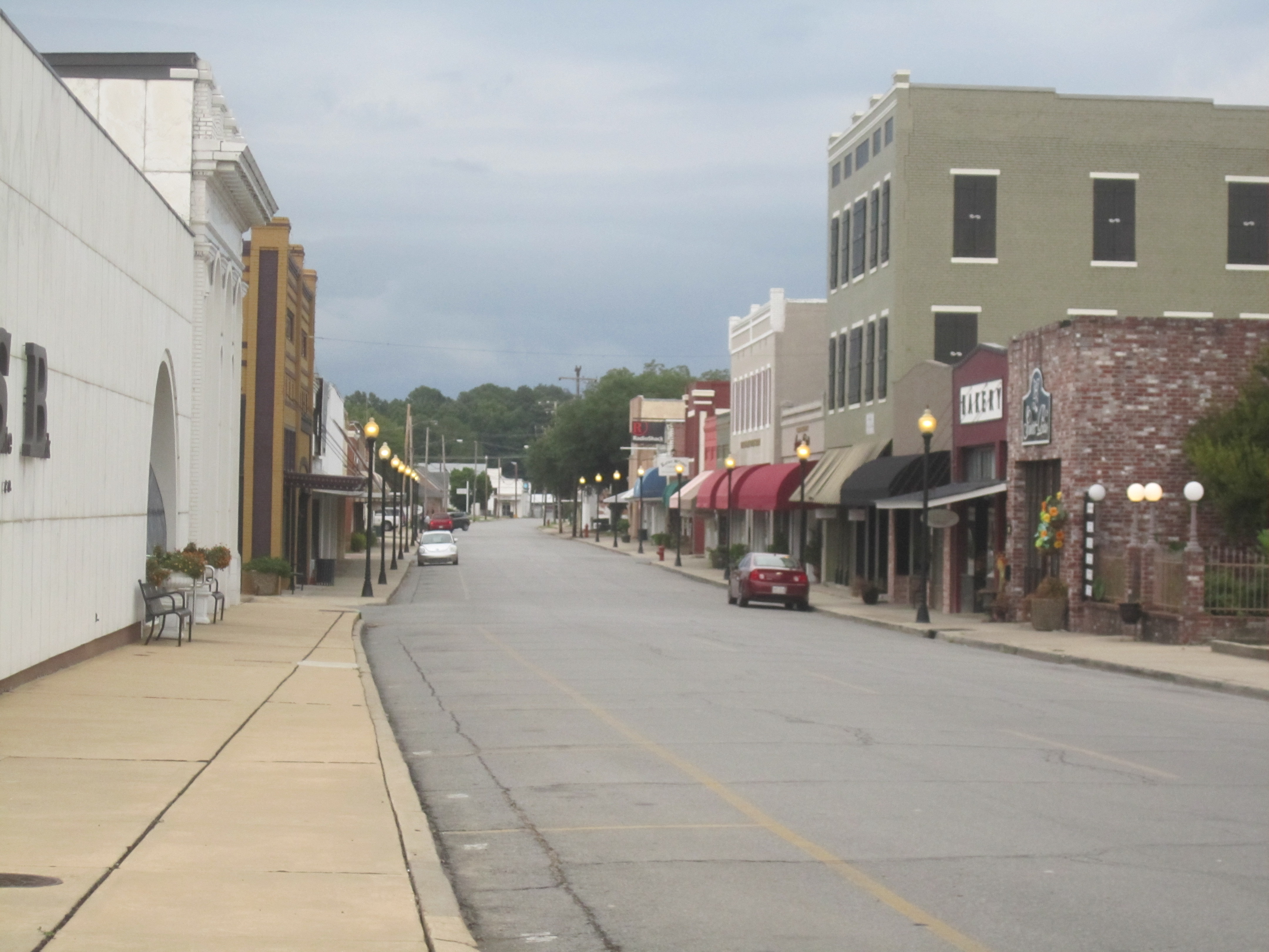 I took photo with Canon camera in Winnsboro, LA.